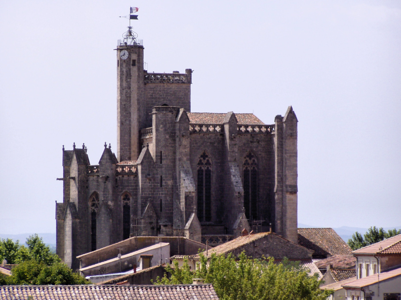 Saint Stephen's Collegiate Church in Capestang, Languedoc-Roussillon, France.